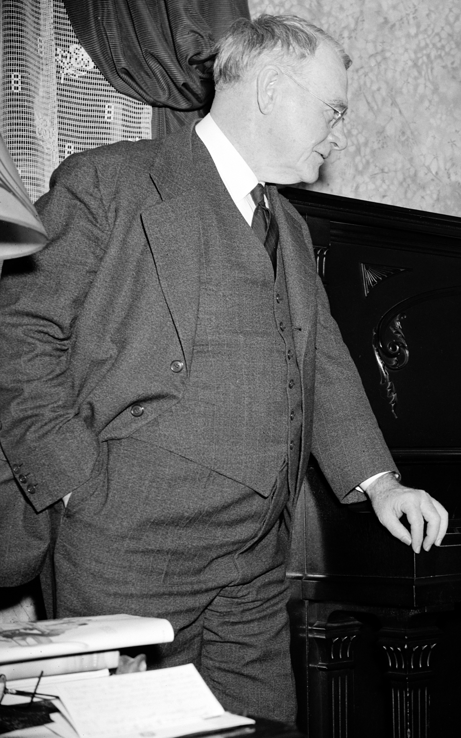 Fred C. Gilchrist, US Representative from Iowa